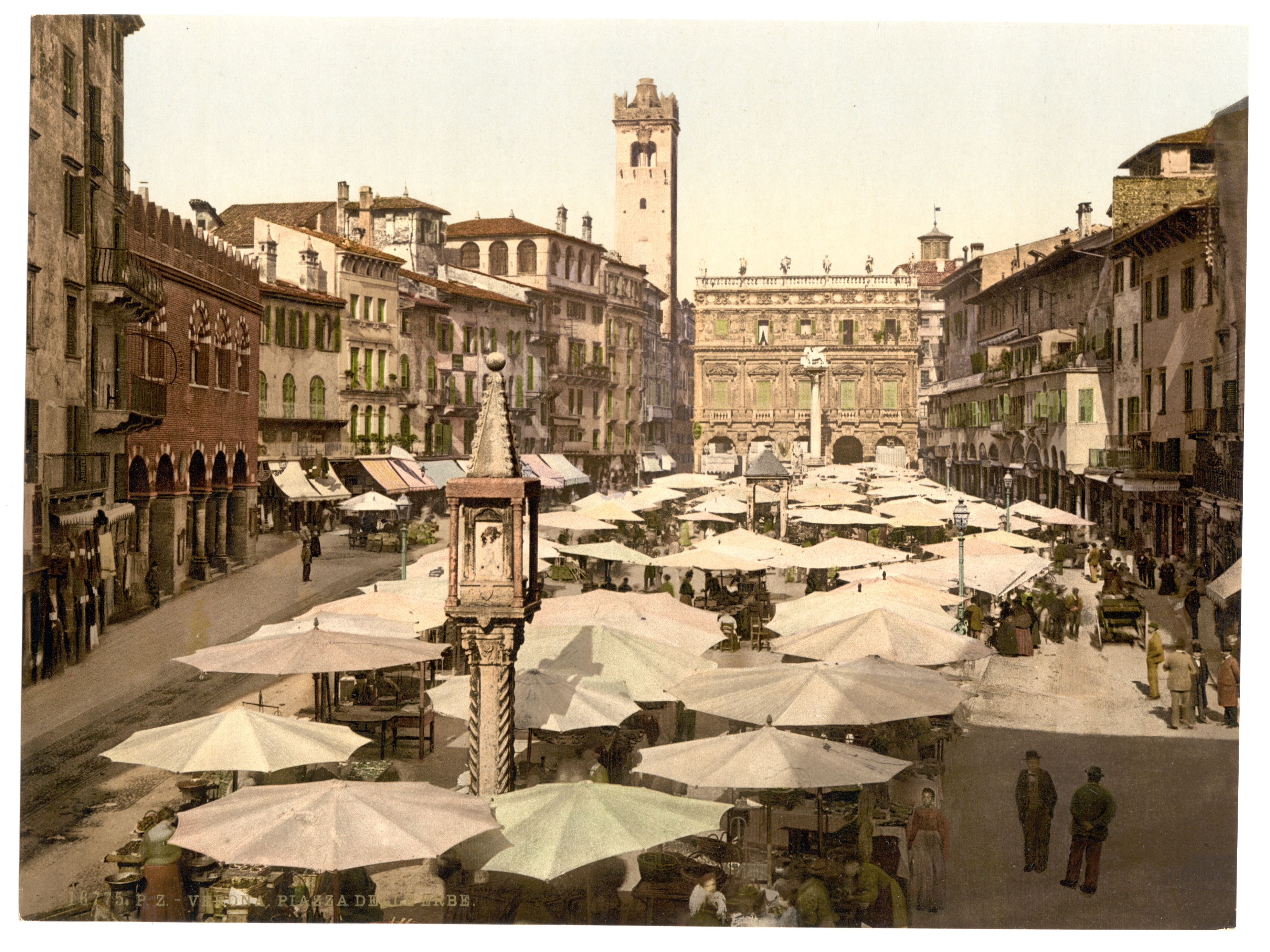 More information about the Photochrom Print Collection is available at Forms part of: Views of architecture and other sites in Italy in the Photochrom print collection.; Print no. "16775."; Incorrect title from the Detroit Publishing Co., Catalogue J-foreign section, Detroit, Mich. : Detroit Publishing Company, 1905: "Piazzi delle Erbe, Verona."; Title from item.